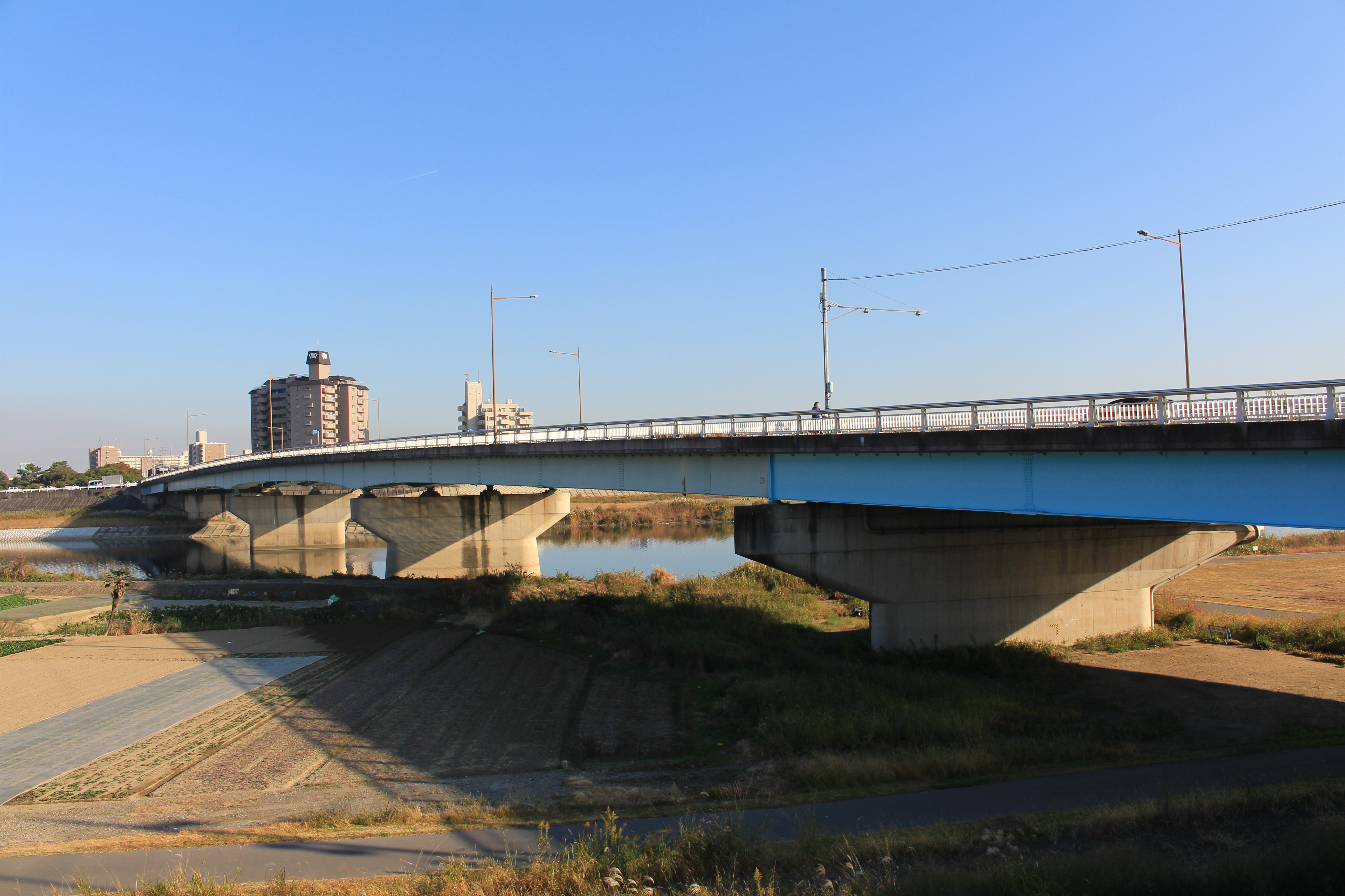 Shintaisho Bridge, a bridge over Shōnai River of Aichi Prefectural Road Route 68 in Nakamura-ku, Nagaoya and Ōharu, Aichi prefecture, Japan.